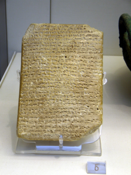 Amarna tablet (British Museum), mentioning the king of Alashia (Cyprus). (Letter shows paragraphing.)